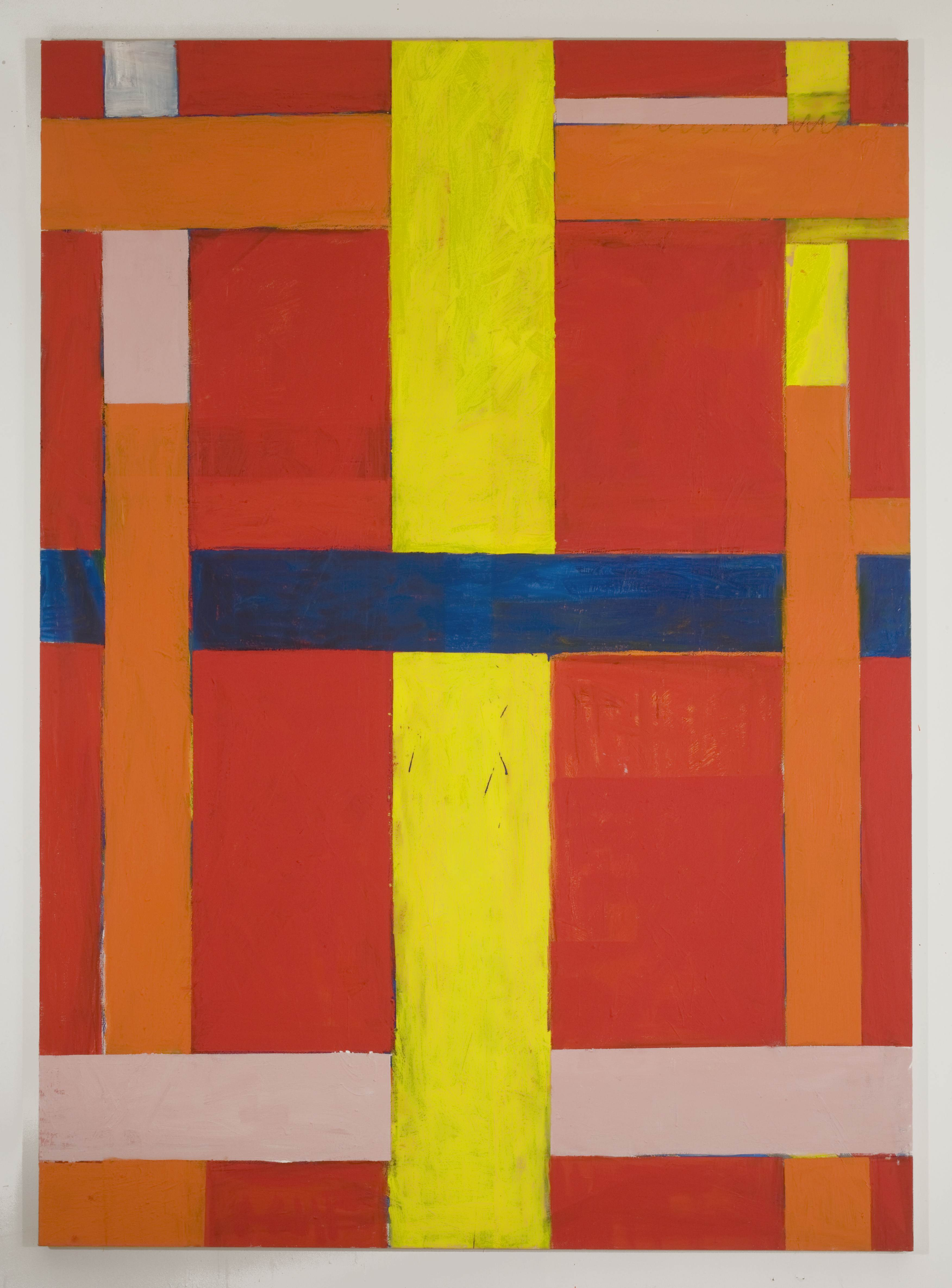 Thornton Willis "Conversion" 2008, Oil on Canvas, 97x70 inches. Other information This photograph represents an entire body of work.